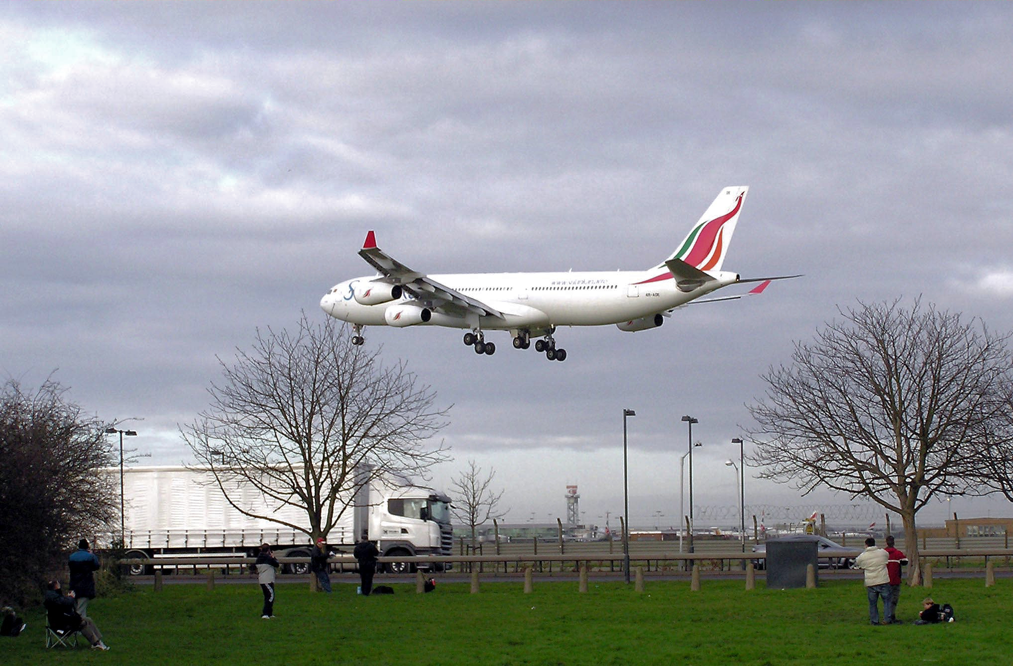 Spotters enjoying the landing of a SriLankan Airlines Airbus A340 at Heathrow Airport, London, England. Taken at Myrtle Avenue by Adrian Pingstone in January 2005 and released to the public domain.